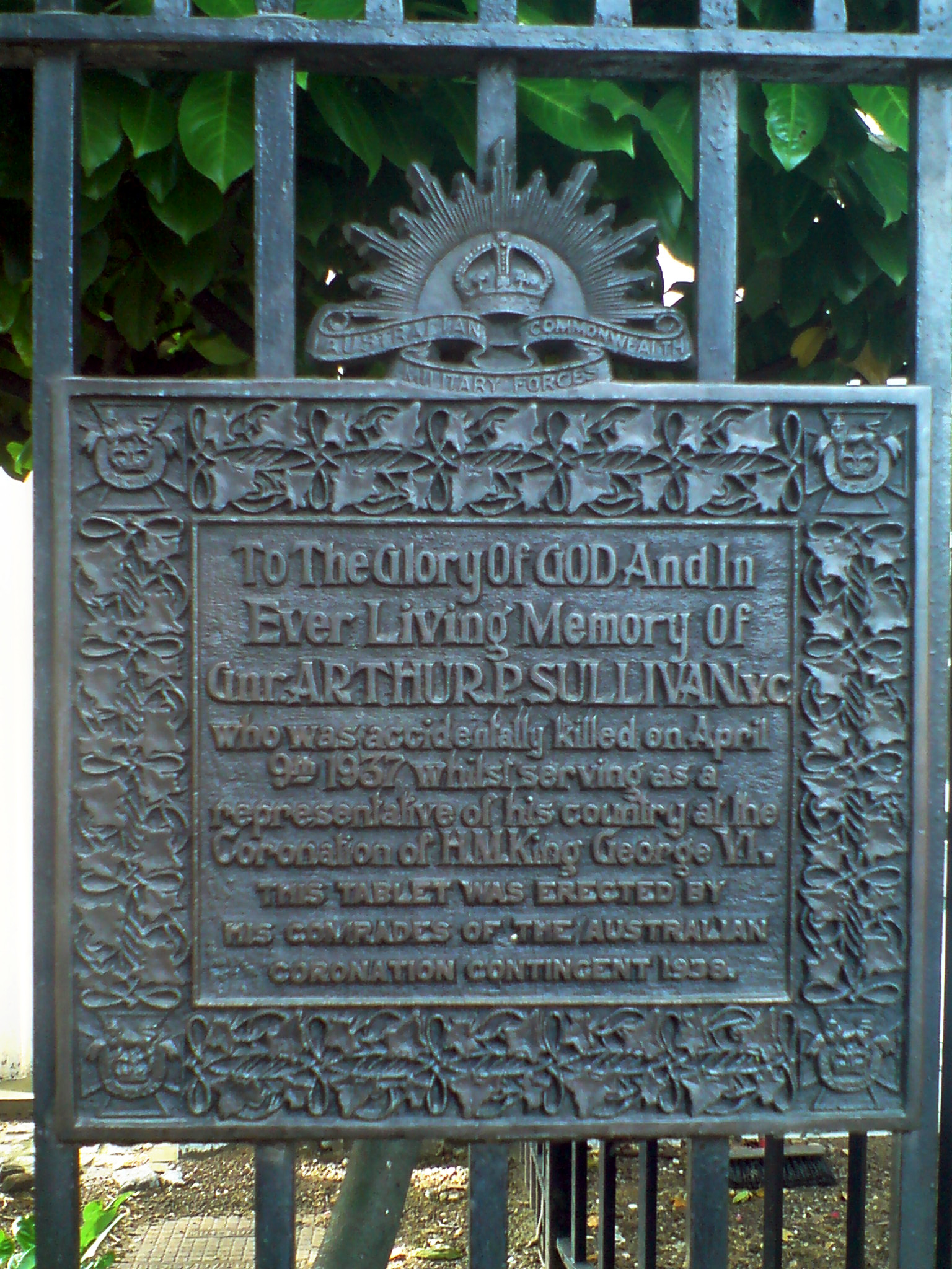 The memorial plaque in memory of Arthur Sullivan (VC), on the railings of Wellington Barracks, London.